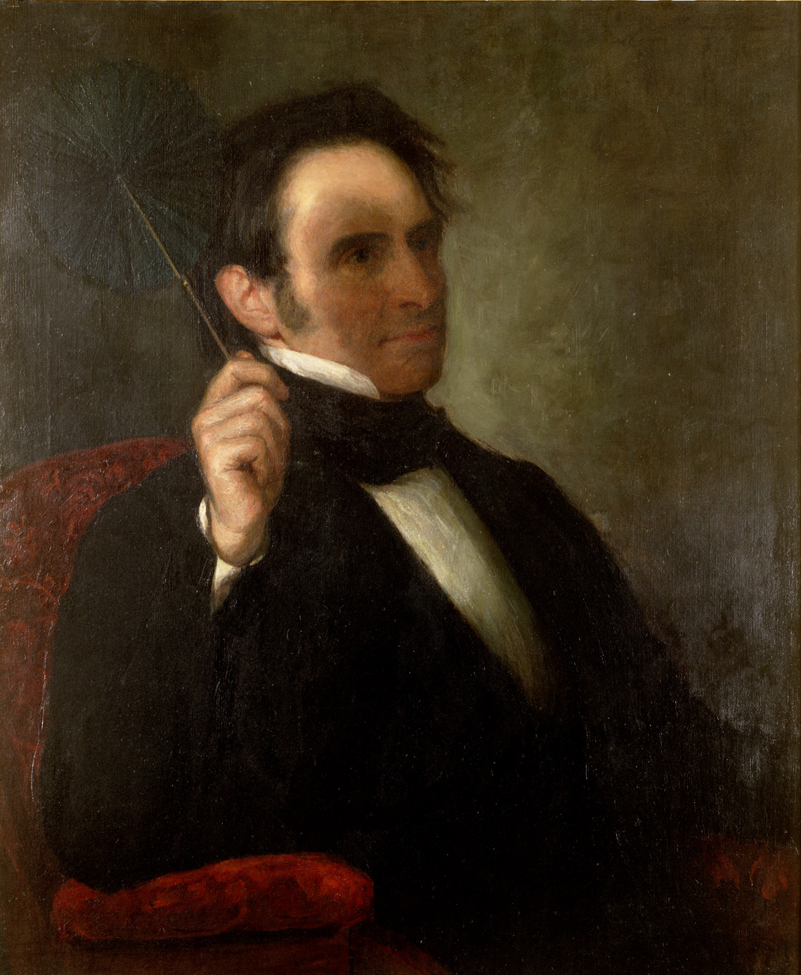 Portrait of Peleg Sprague